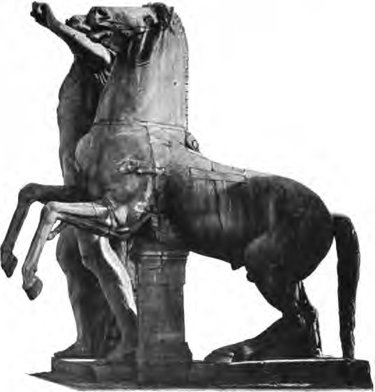 Author: Furtwängler, Adolf, 1853-1907. [from old catalog]; Urlichs, Heinrich Ludwig, 1864- [from old catalog] joint author Subject: Sculpture, Greek. [from old catalog]; Sculpture, Roman. [from old catalog] Publisher: München, F. Bruckmann a. g Year: 1904 Possible copyright status: NOT_IN_COPYRIGHT Language: German Digitizing sponsor: Google Book contributor: Harvard University Collection: americana